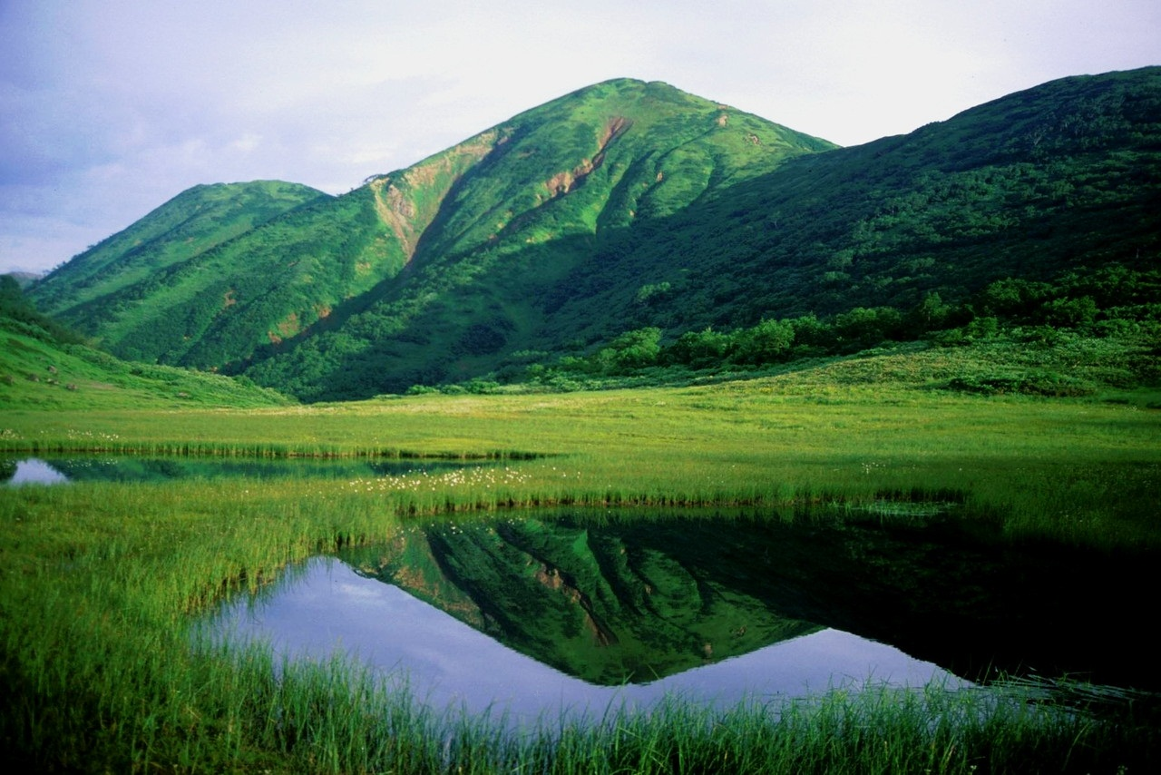 Mount_Hiuchi_from_Tengunoniwa